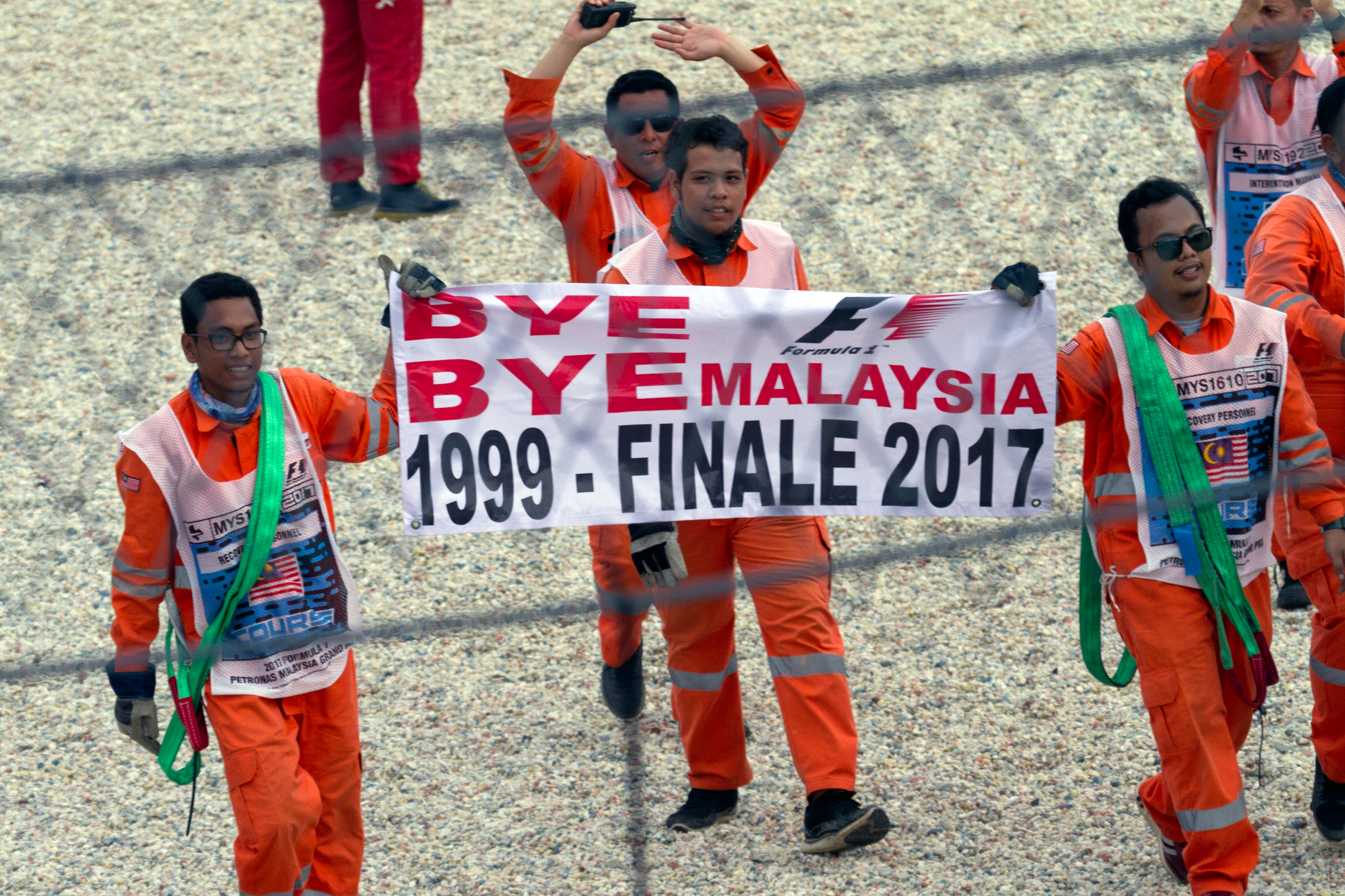 Formula One 2017 Round 15 Malaysian GP: Bye Bye Malaysia GP